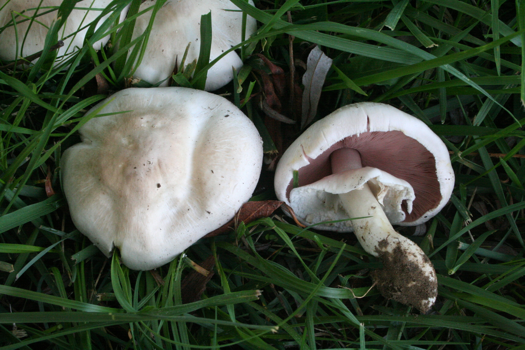 Agaricus pilatianus on a lawn in Massy, France.